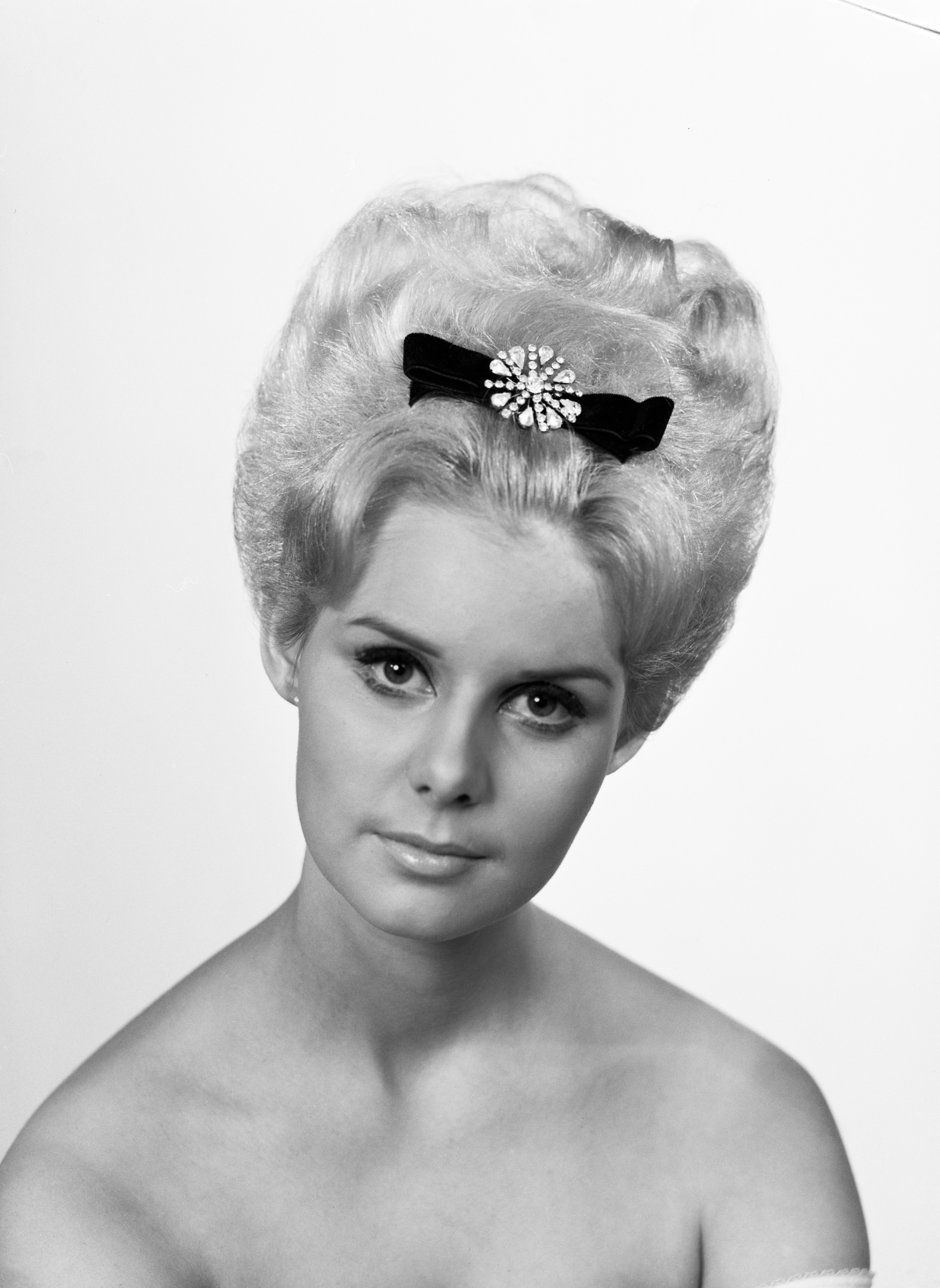 Photograph of Kaarina Leskinen (1944–), Miss Suomi of 1962.